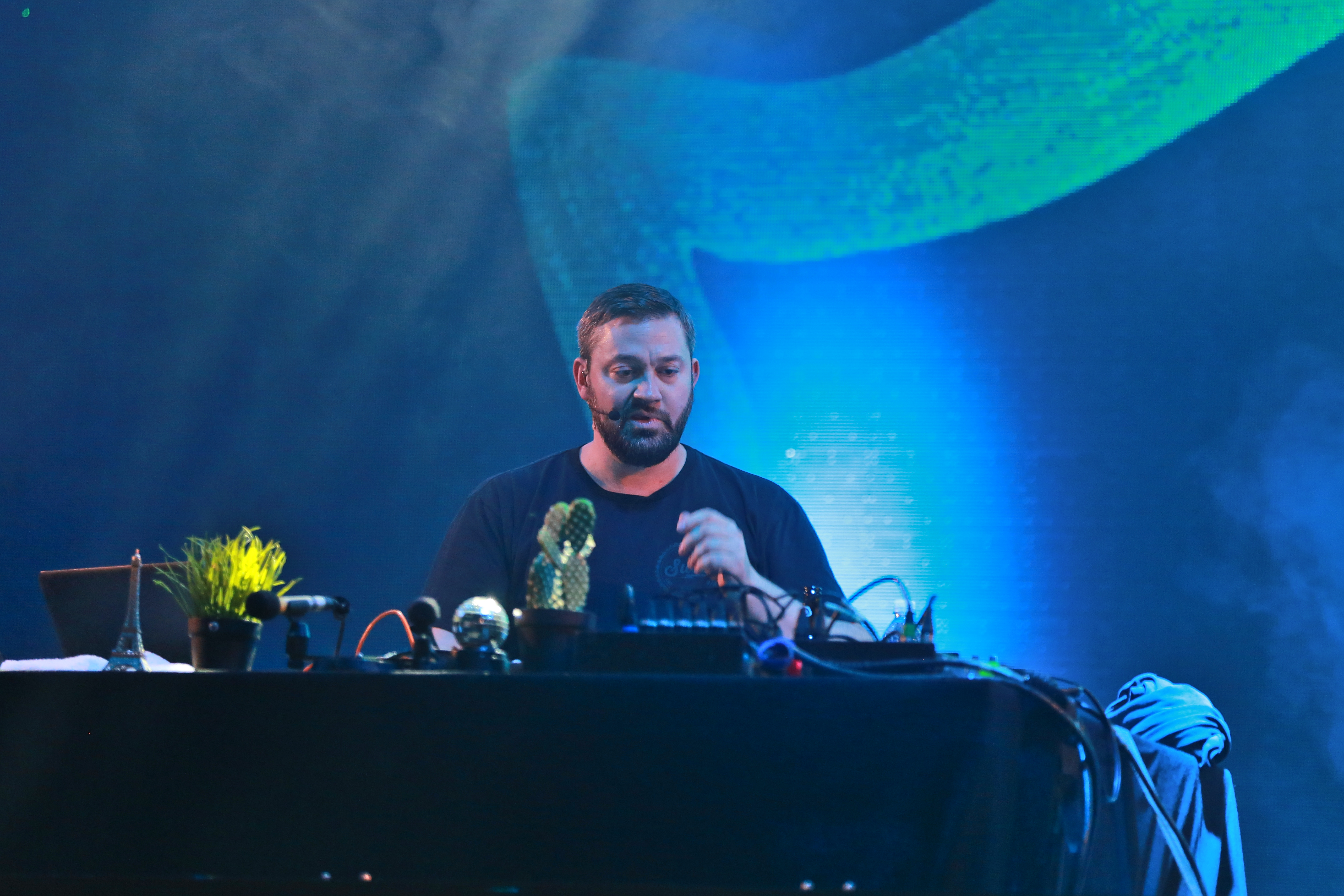 Fritz Kalkbrenner at opening ceremony of Climbing World Championships 2018 in Innsbruck.